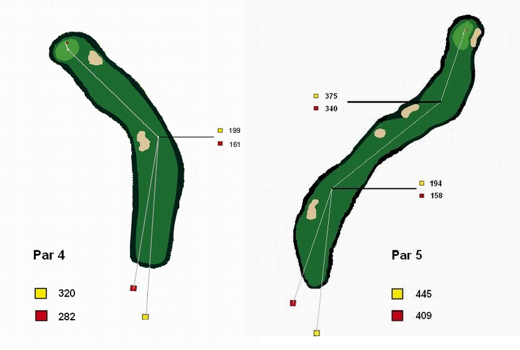 Typical doglegs